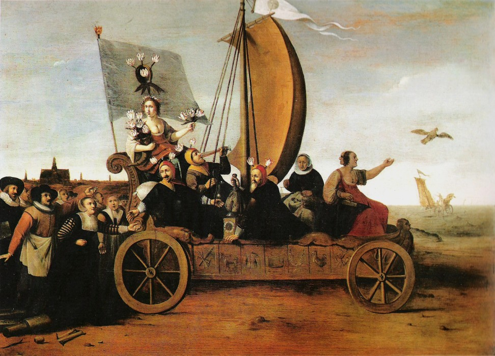 Allegory of the Tulip Mania. The goddess of flowers is riding along with three drinking and money weighing men and two women on a car. Weavers from Haarlem have thrown away their equipment and are following the car. The destiny of the car is shown in the background: it will disappear in the sea. See also File:Mallewagen bloemisten small.tif.